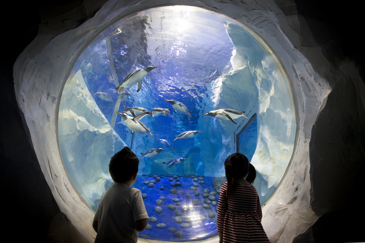 The penguins at the National SEA LIFE Centre in their new penguin ice adventure which launched in 2014.